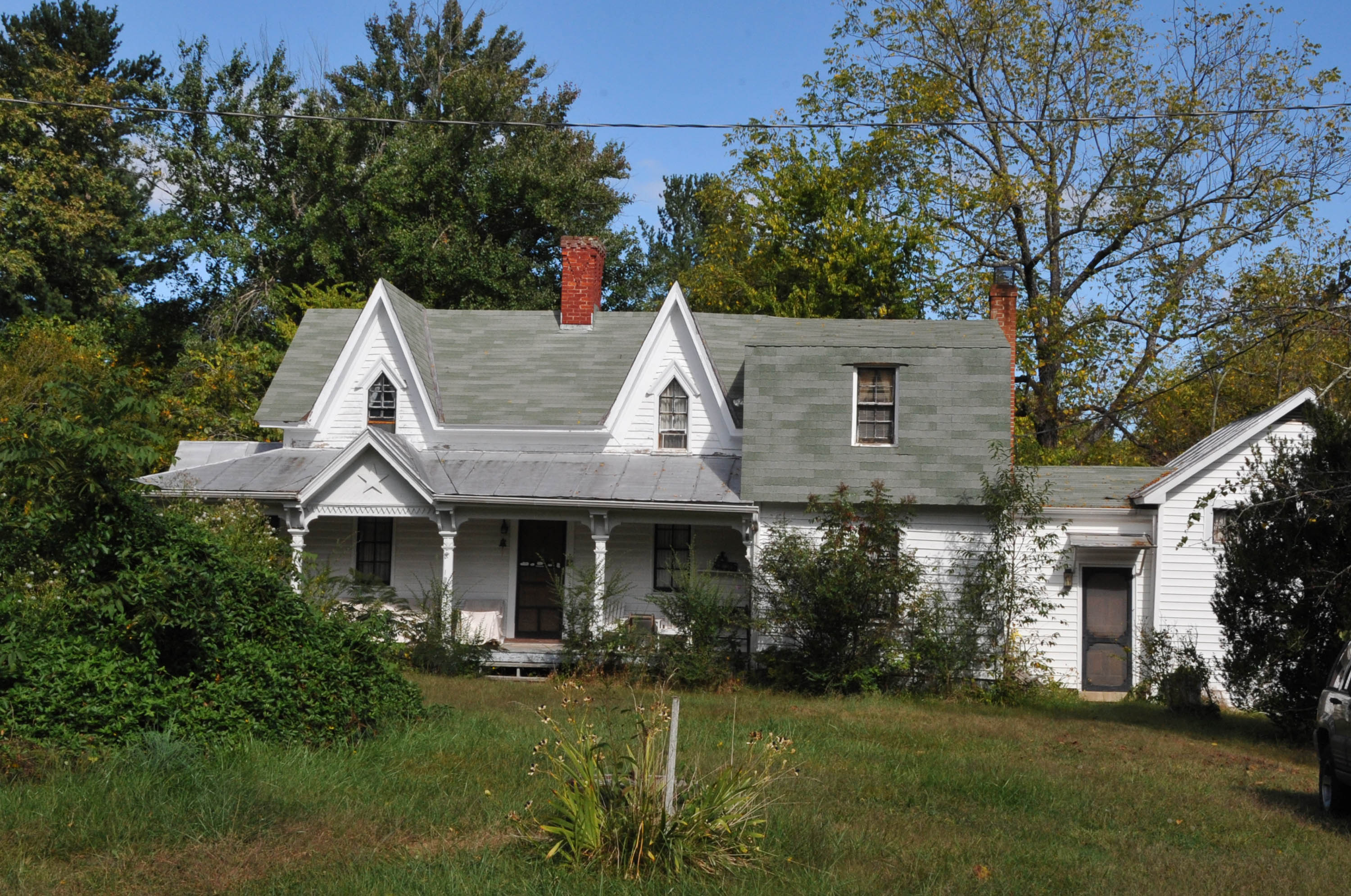 HENRY BROADUS JONES HOUSE, ALSO KNOWN AS SANTA CLAUS HOUSE OR THE HOUSE OF THE SEVEN GABLES; BUILT IN 1885